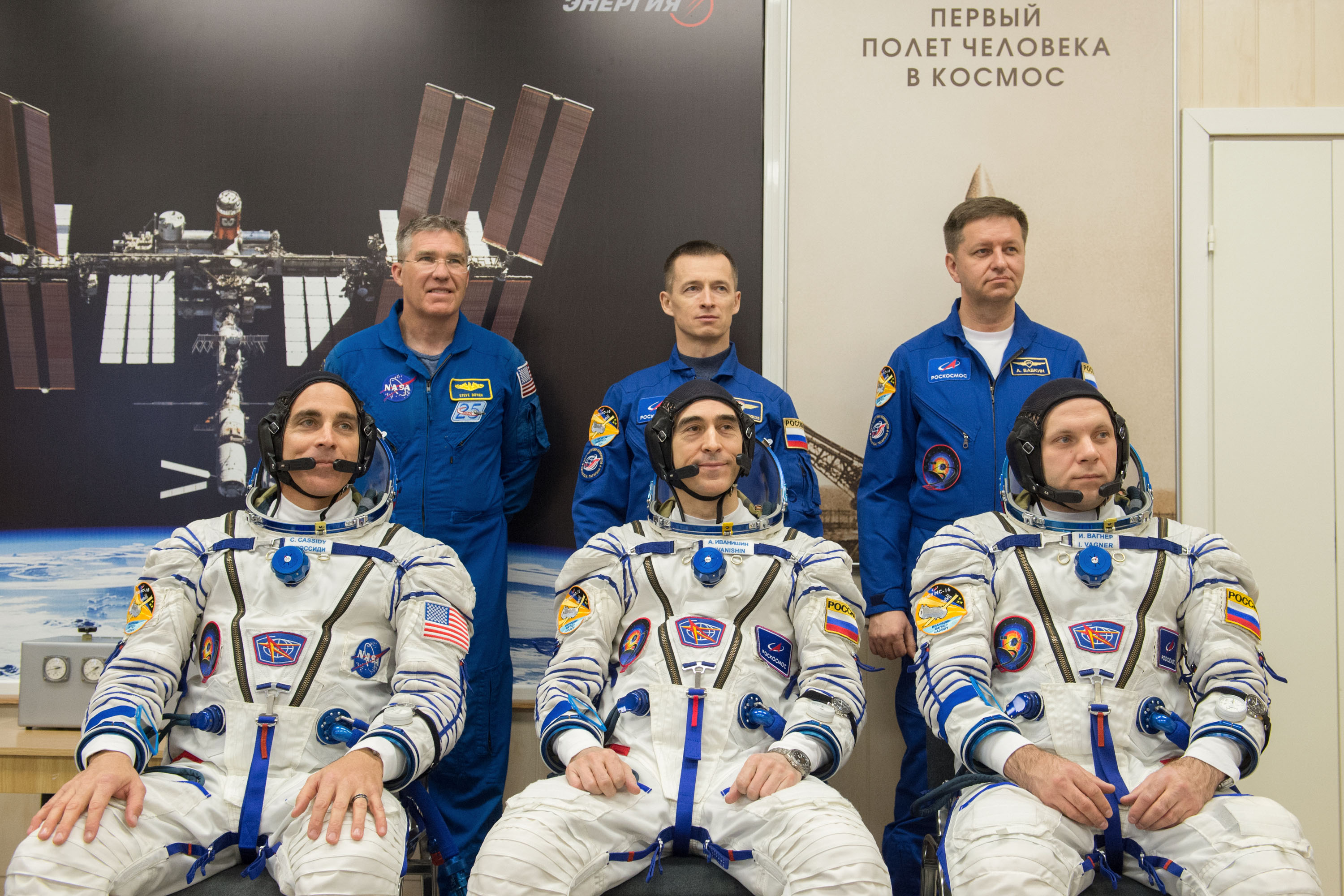 Expedition 63 Preflight - Expedition 63 crewmembers Chris Cassidy of NASA, seated left, Anatoly Ivanishin and Ivan Vagner of Roscosmos, seated right, pose for a photo with backup crew members Steve Bowen of NASA, standing left, Sergey Ryzhikov and Andrei Babkin and of Roscosmos, standing right after the crew had their Sokol suits pressure checked prior to launch on a Soyuz rocket, Thursday, April 9, 2020 at the Baikonur Cosmodrome in Kazakhstan. A few hours later, they lifted off for a six-and-a-half month mission on the International Space Station.